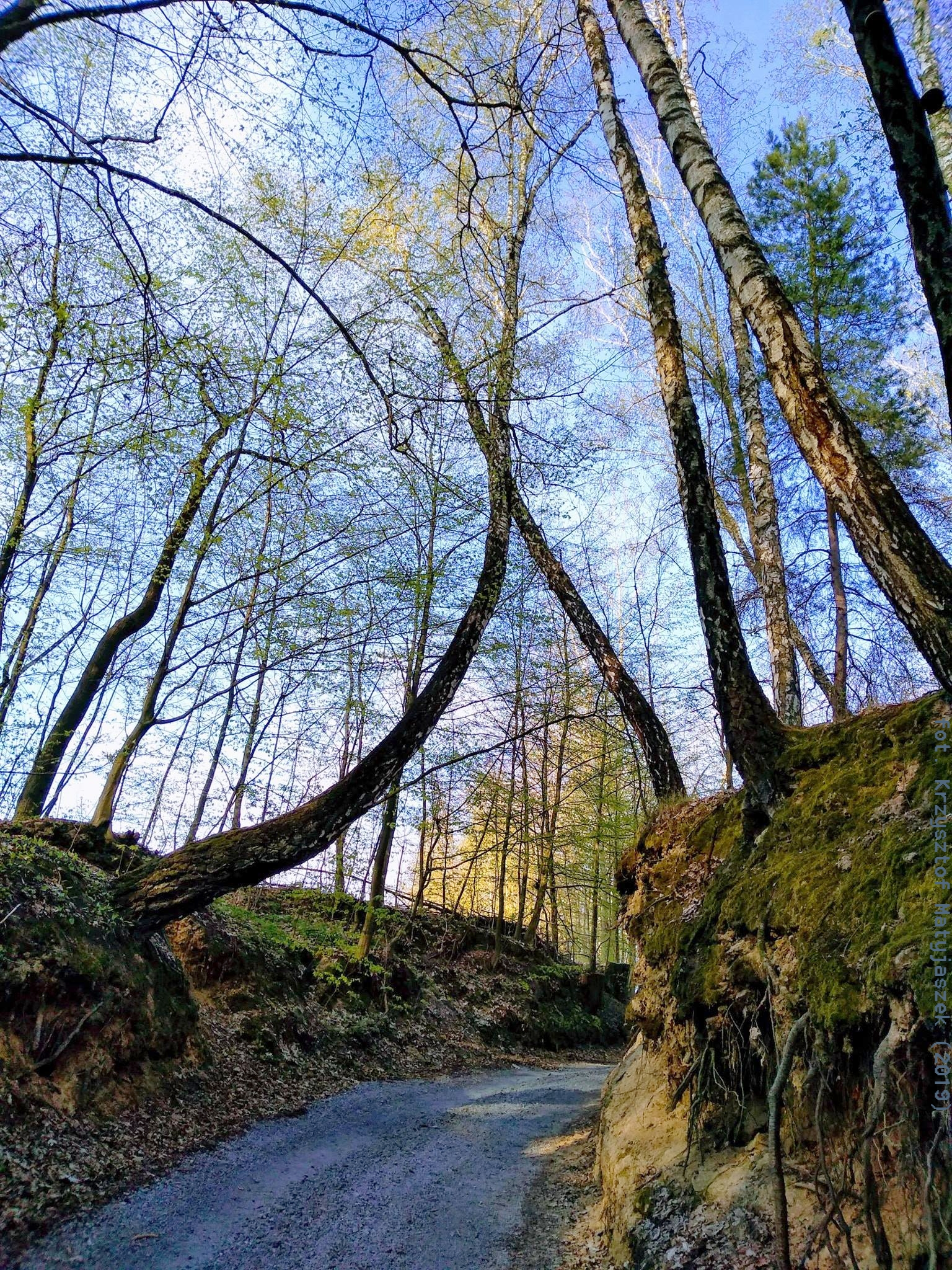 Karpiowski Forest 2019